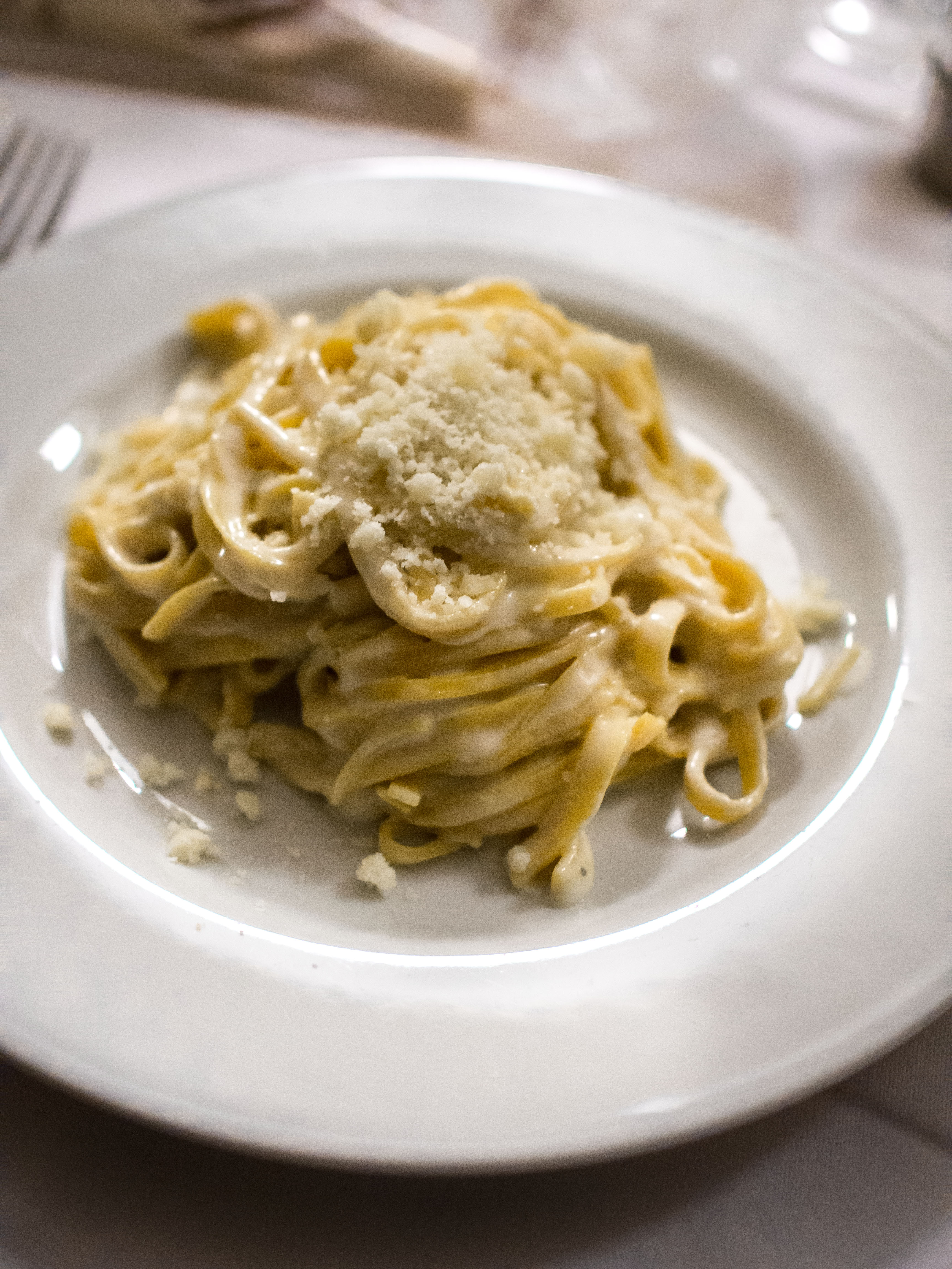 "Tajarin al Castelmagno": Tajarin (Italian: Taglierini) is a local pasta of the Piedmont; here served with the local Castelmagno cheese.